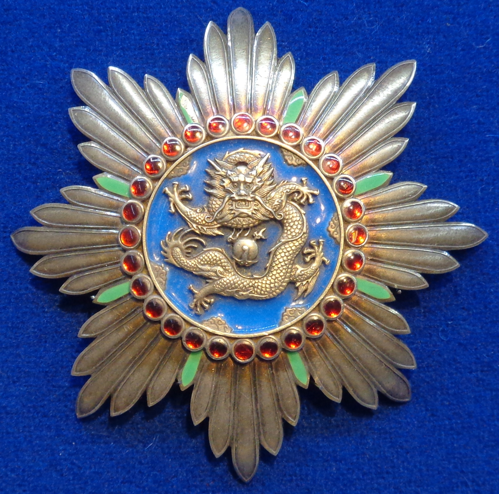 Order of the Illustrious Dragon, star. Empire of Manchukuo. The exhibition of the Tallinn Museum of Orders of Knighthood, Estonia.